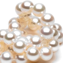 Pearl necklace made from freshwater pearls.